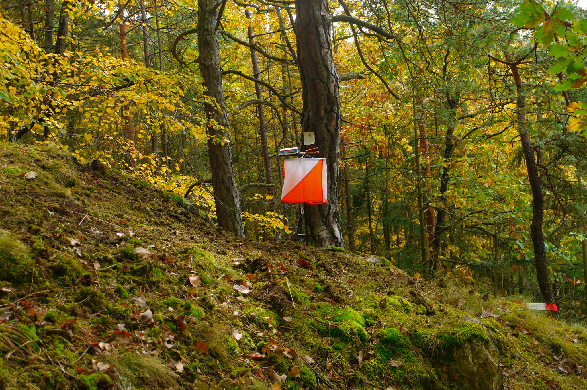 Here is one of the checkpoints you can find during orienteering competition. It is photographed in Czech Republic. I like this photo for its autumn feel. The race is Vodnansky Kapr, highly prestigeous competition held in south Bohemia.